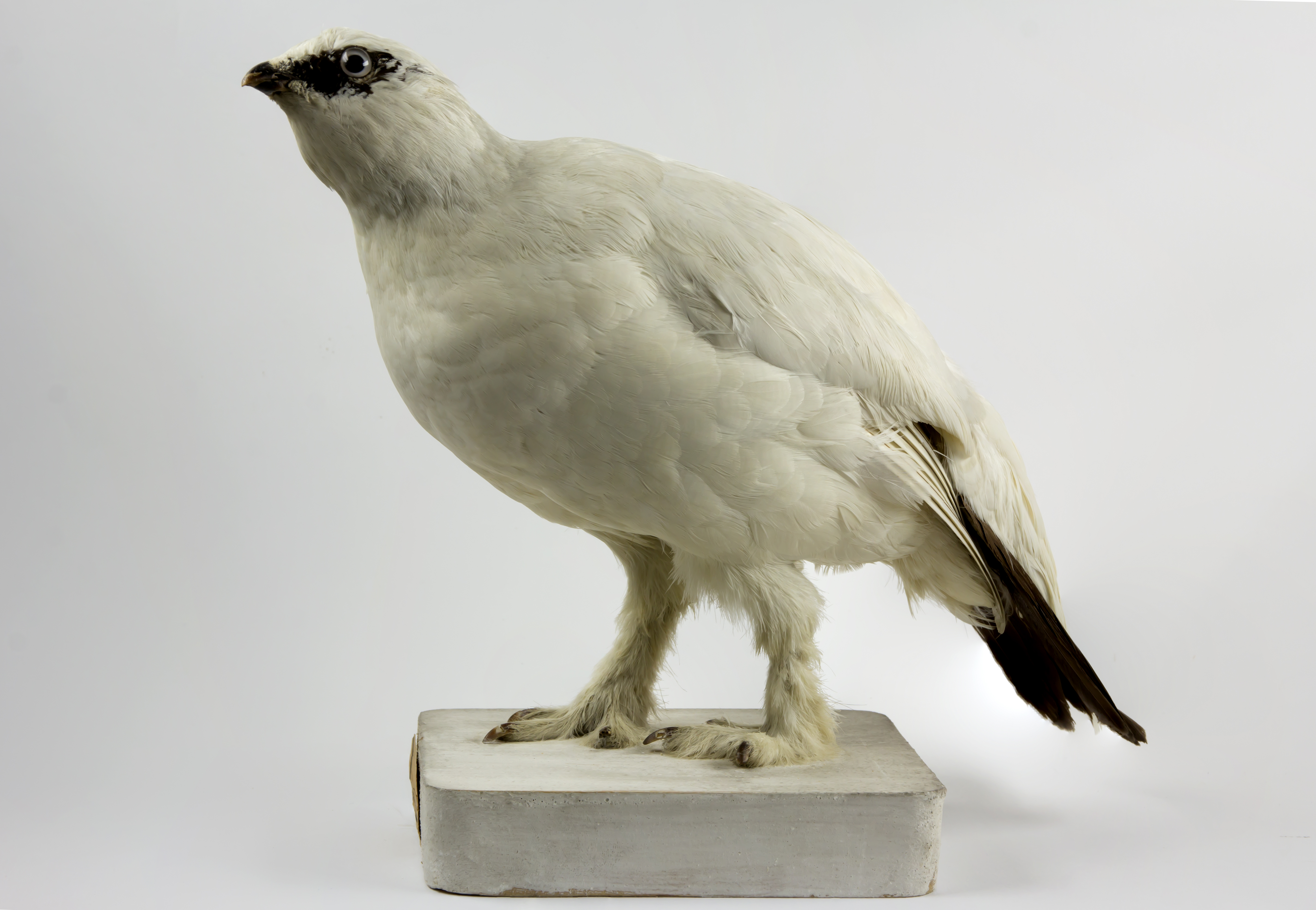 taxidermied specimen, Rock Ptarmigan